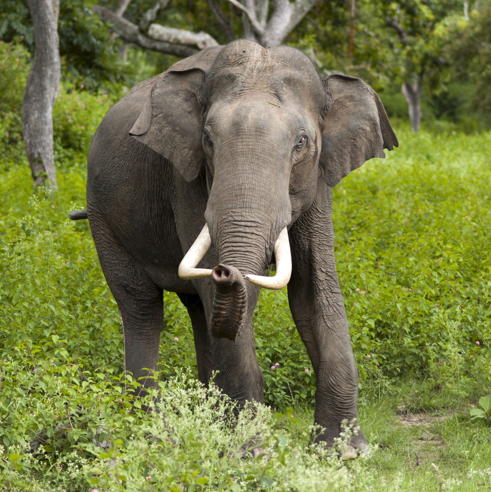 An adult 'bull' (male) Indian elephant. Colloquially called a "tusker" since only the bulls have tusks in Indian elephants. Photographed at Bandipur